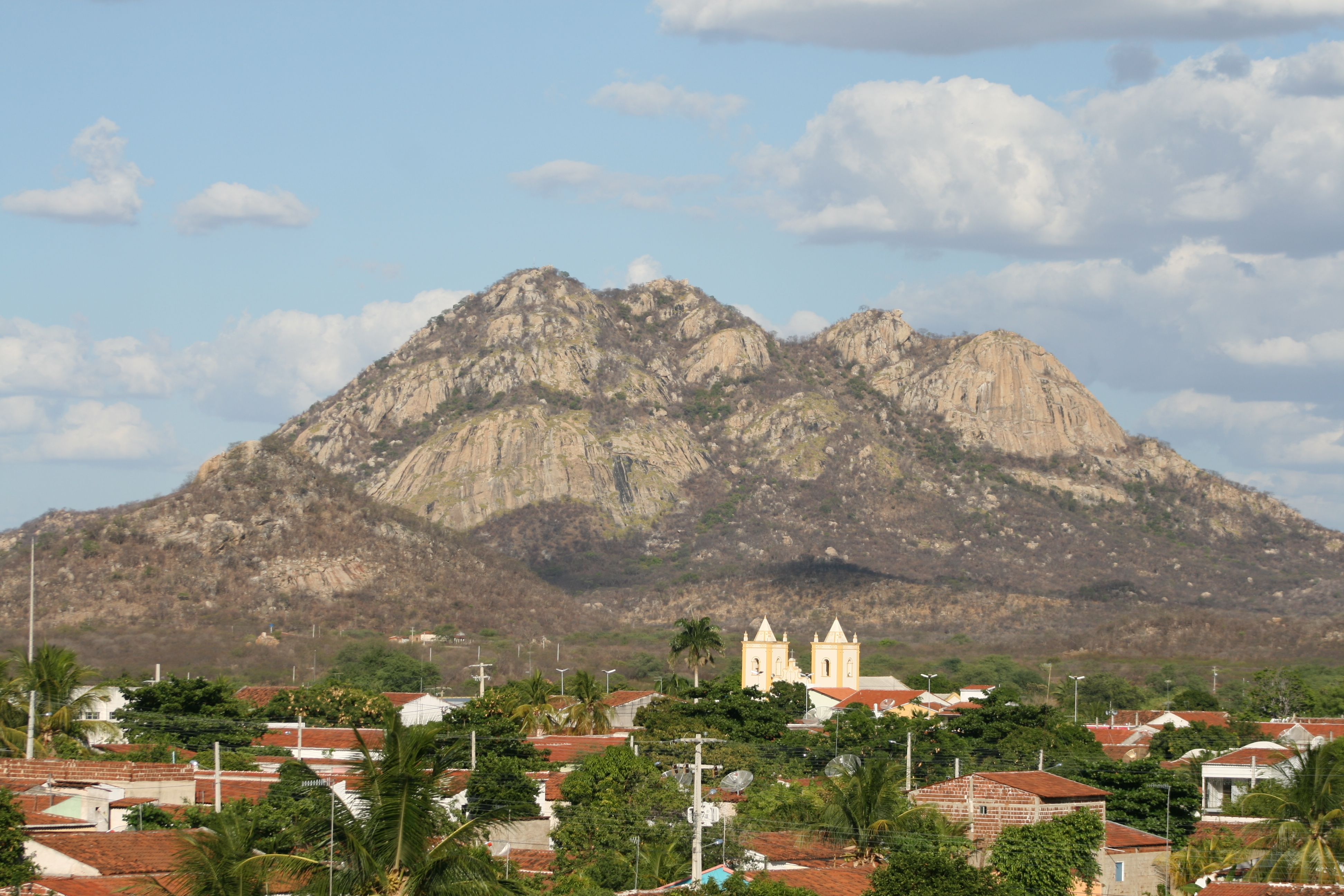 Sierra of Mulungu - São João do Sabugi - RN - Brazil